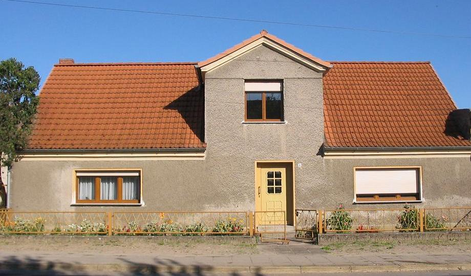 Building Dorfstraße (german for villagestreet ) No. 9. The village Gömnigk is a part of the town Brück in the district Potsdam Mittelmark, state Brandenburg, Germany, at the border to the natural preserve Naturpark Hoher Fläming.